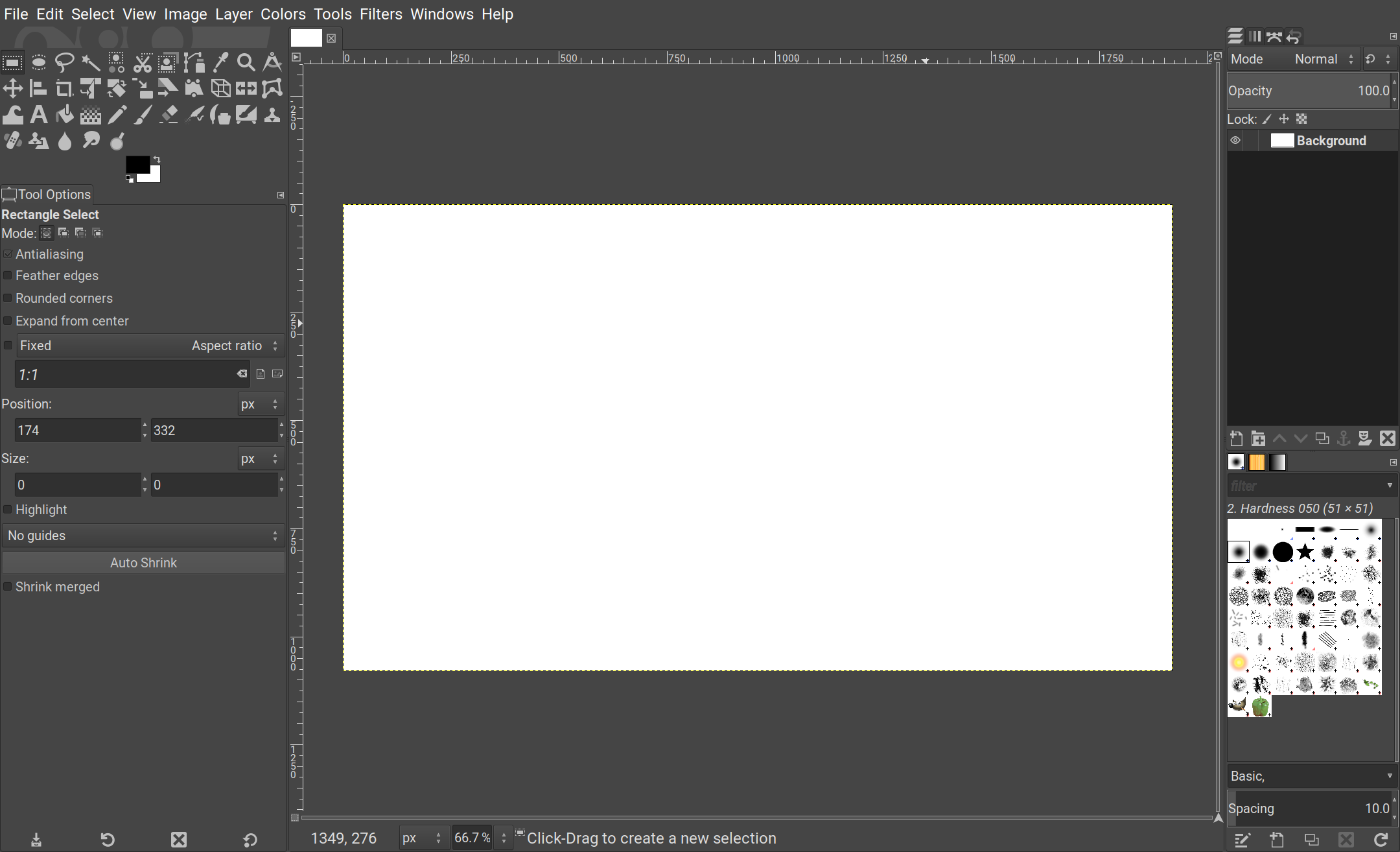 Gimp 2.10.8